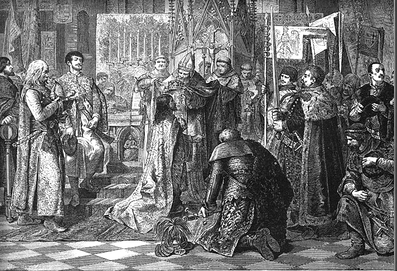 Coronation of Louis Anjou as a King of Poland.